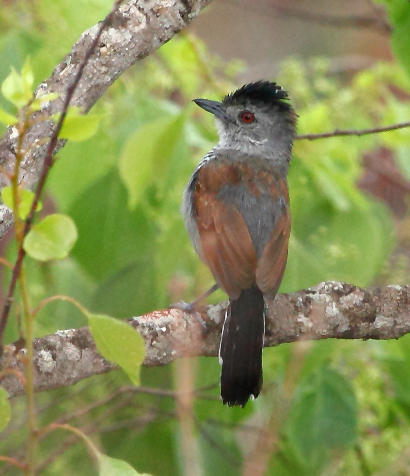 Rufous-winged antshrike at Serra da Canastra National Park - MG - Brazil